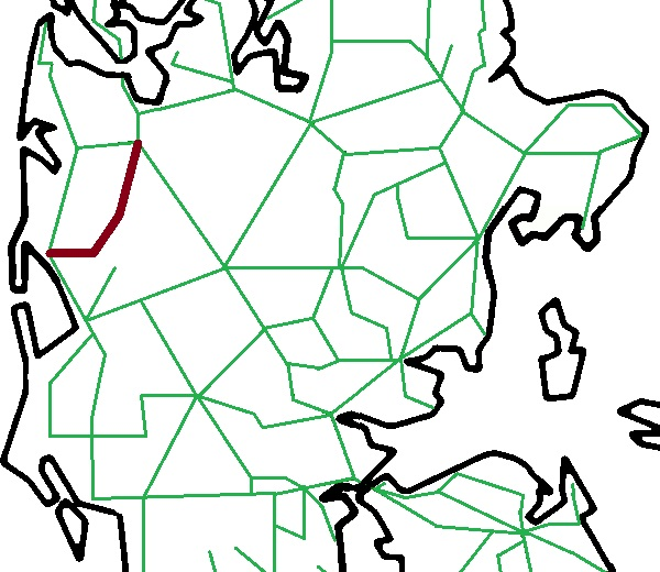 Map of railways in the northern Jutland in Denmark with the private railway Ringkøbing-Ørnhøj-Holstebro Jernbane in brown.